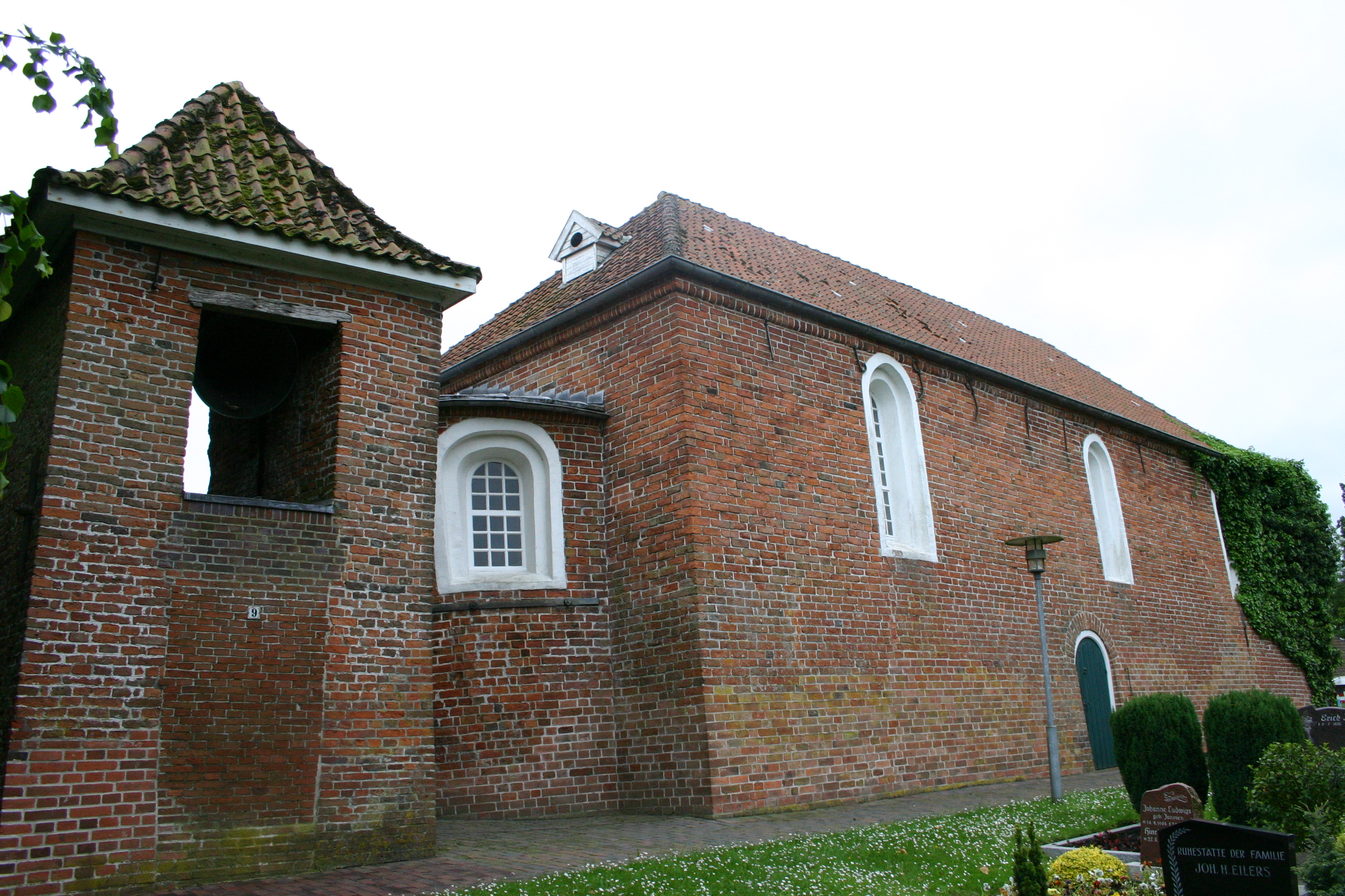 Historic church in Blersum, district of Wittmund, East Frisia, Germany